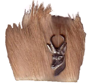 Springbok skin woggle worn by South African Scouts attending World Jamborees, from a scan from the collection of Chris Fitch, Kintetsubuffalo 05:42, 17 November 2005 (UTC)